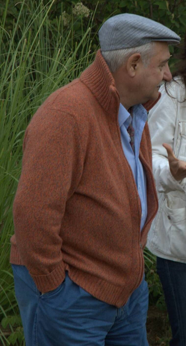 Gianfranco Soldera (*Treviso 1937, +16 February 2019) with wine critic and author Kerin O'Keefe